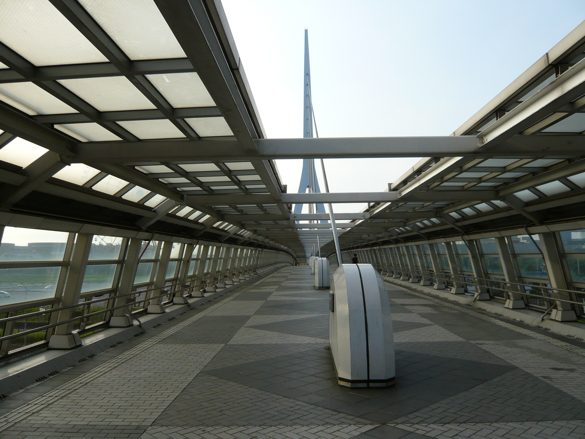 Teleport Bridge in Odaiba, Tokyo, Japan.